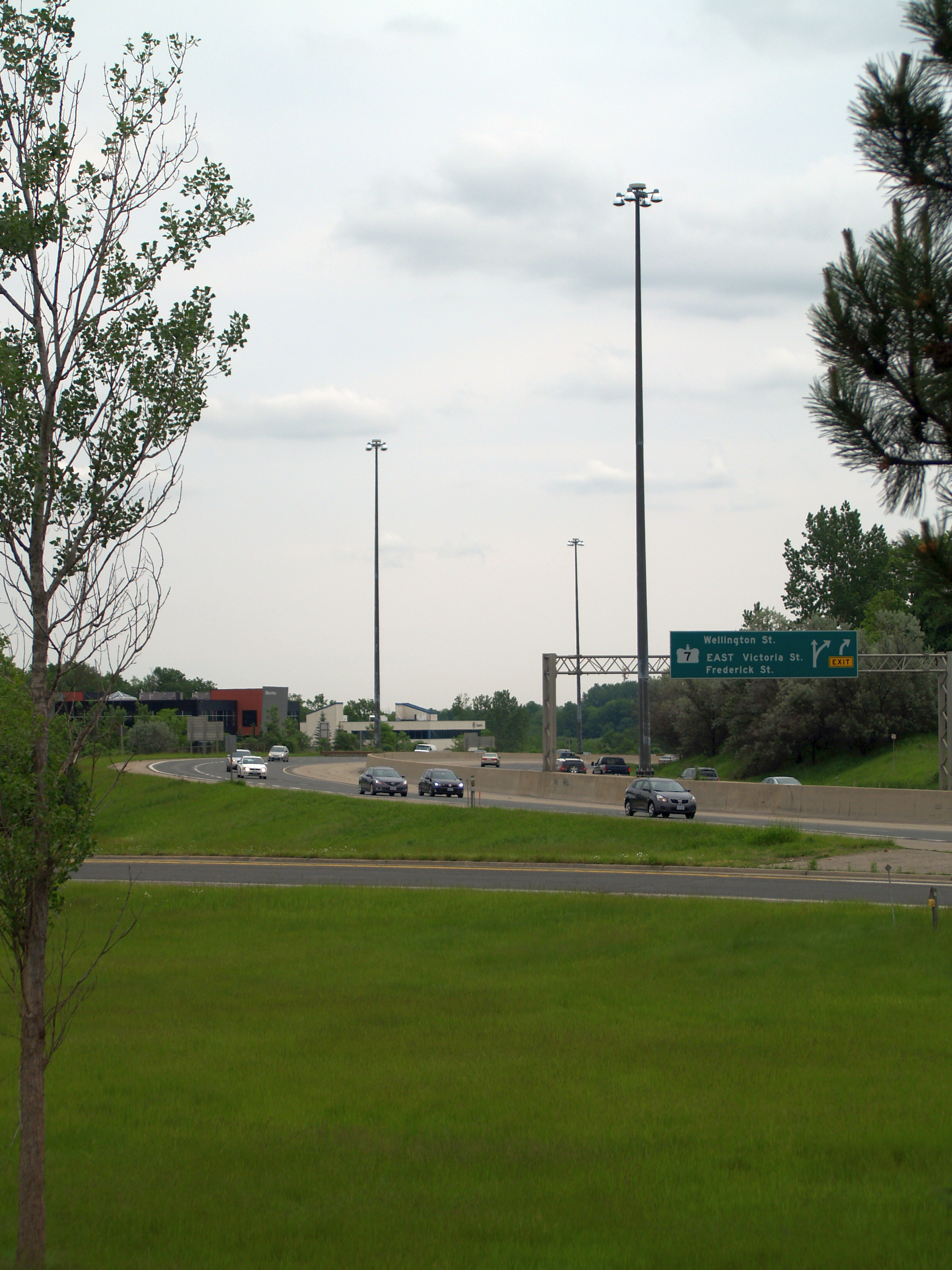 Highway 85 / Conestoga Parkway entering Kitchener, Ontario, viewed from the Lancaster Street overpass.